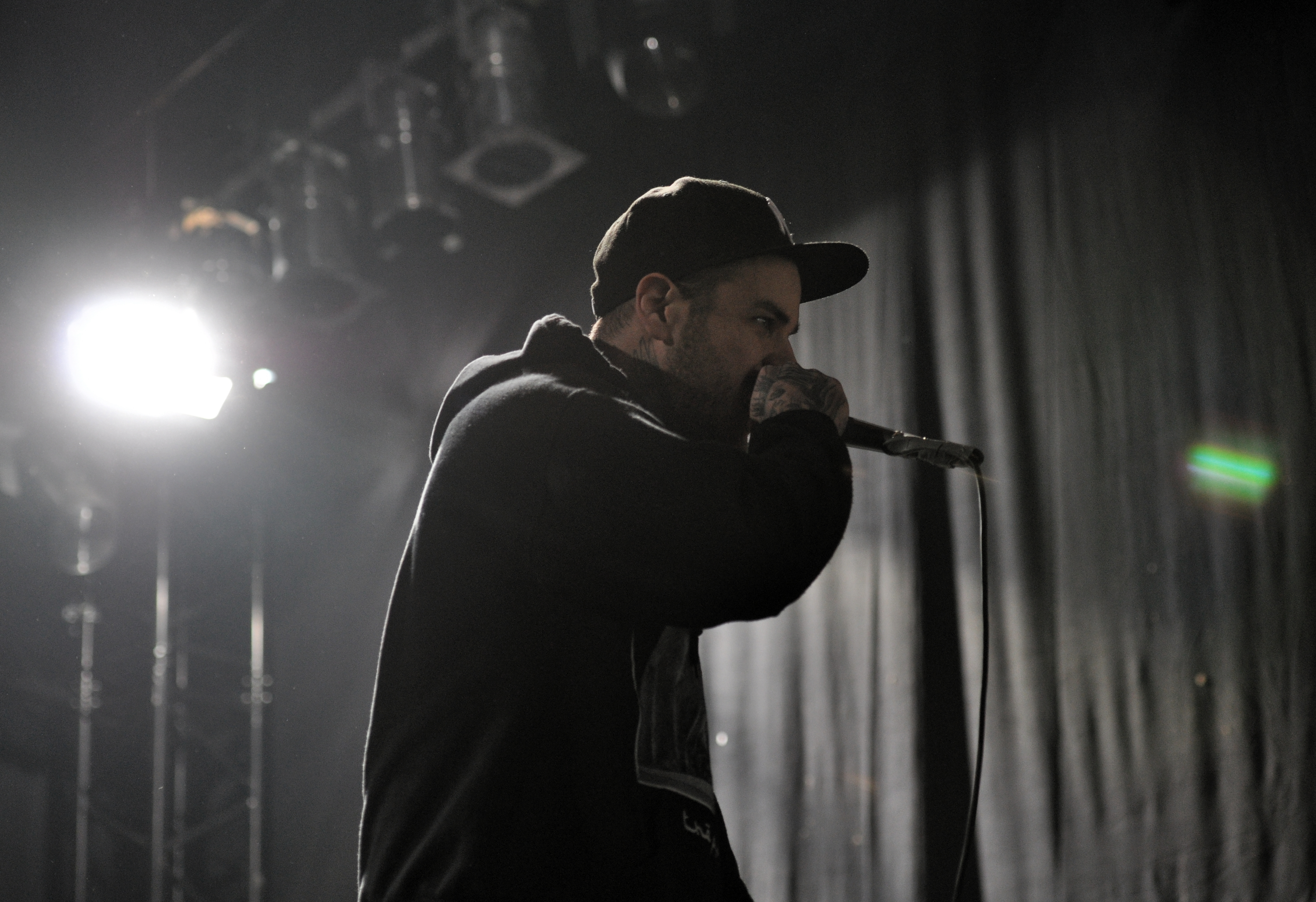 Emmure at Groezrock 2013